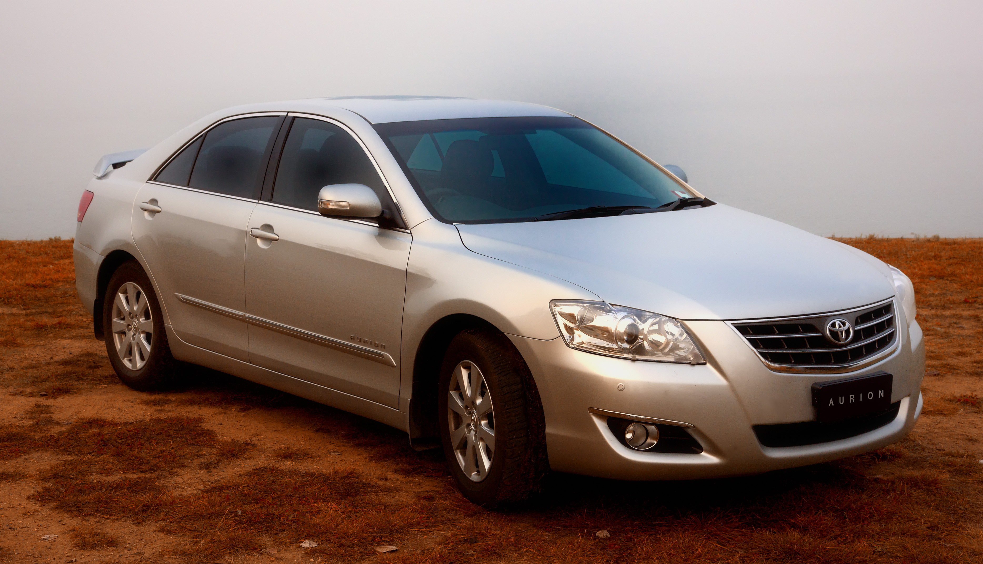 2007 Toyota Aurion Prodigy, photographed in Canberra, Australian Capital Territory, Australia. Taken with Canon EOS-1Ds Mark II.